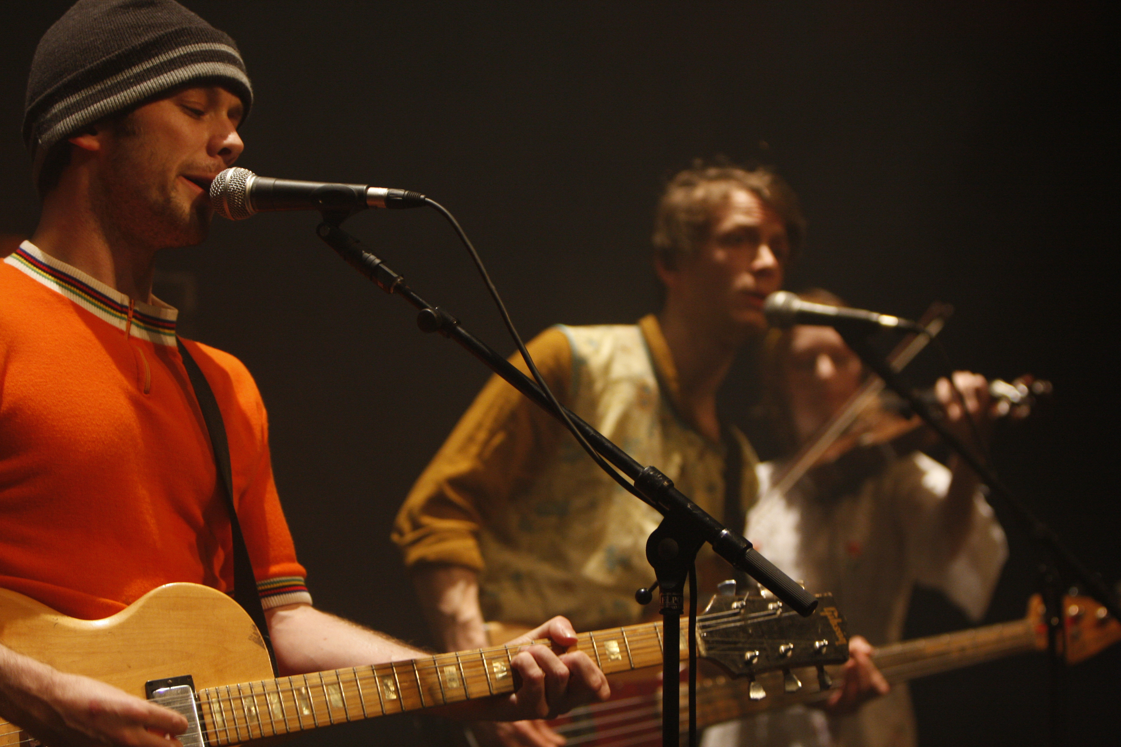 Yan (en) (left) and Hamilton (right) of British Sea Power (website) at Le Café de la Danse - Paris XIème - February 10, 2008 Sur l'aimable invitation de Beggars France